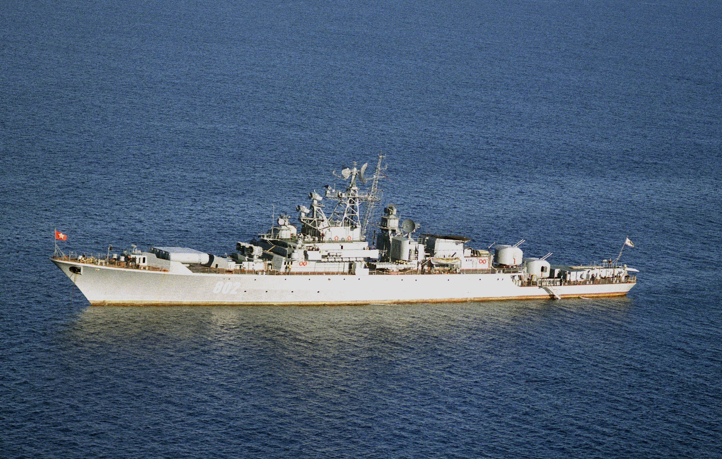 Soviet Navy SKR project 1135 Bezukoriznennyy (late Ukrainian Navy frigate Mykolaiv) on the Mediterranean Sea.